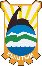 Kyshtym (Chelyabinsk oblast), coat of arms (1967)